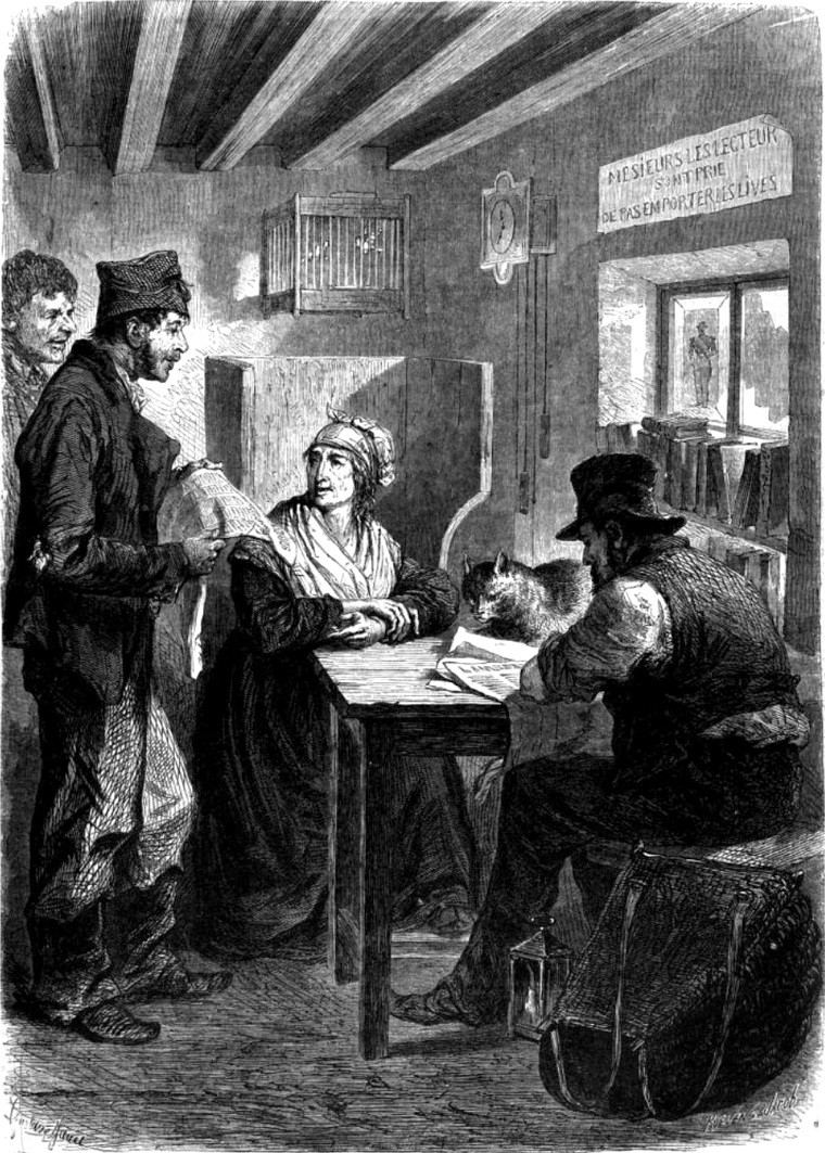 The Cabinet des chiffonniers (Cité Doré) of Madame Lecœur. A sign posted above the window reads, “MESIEURS LES LECTEUR SONT PRIE DE PAS EMPORTER LES LIVRES” [sic] Etching by Just L'Hernault, after Charles Yriarte (1832–1898)